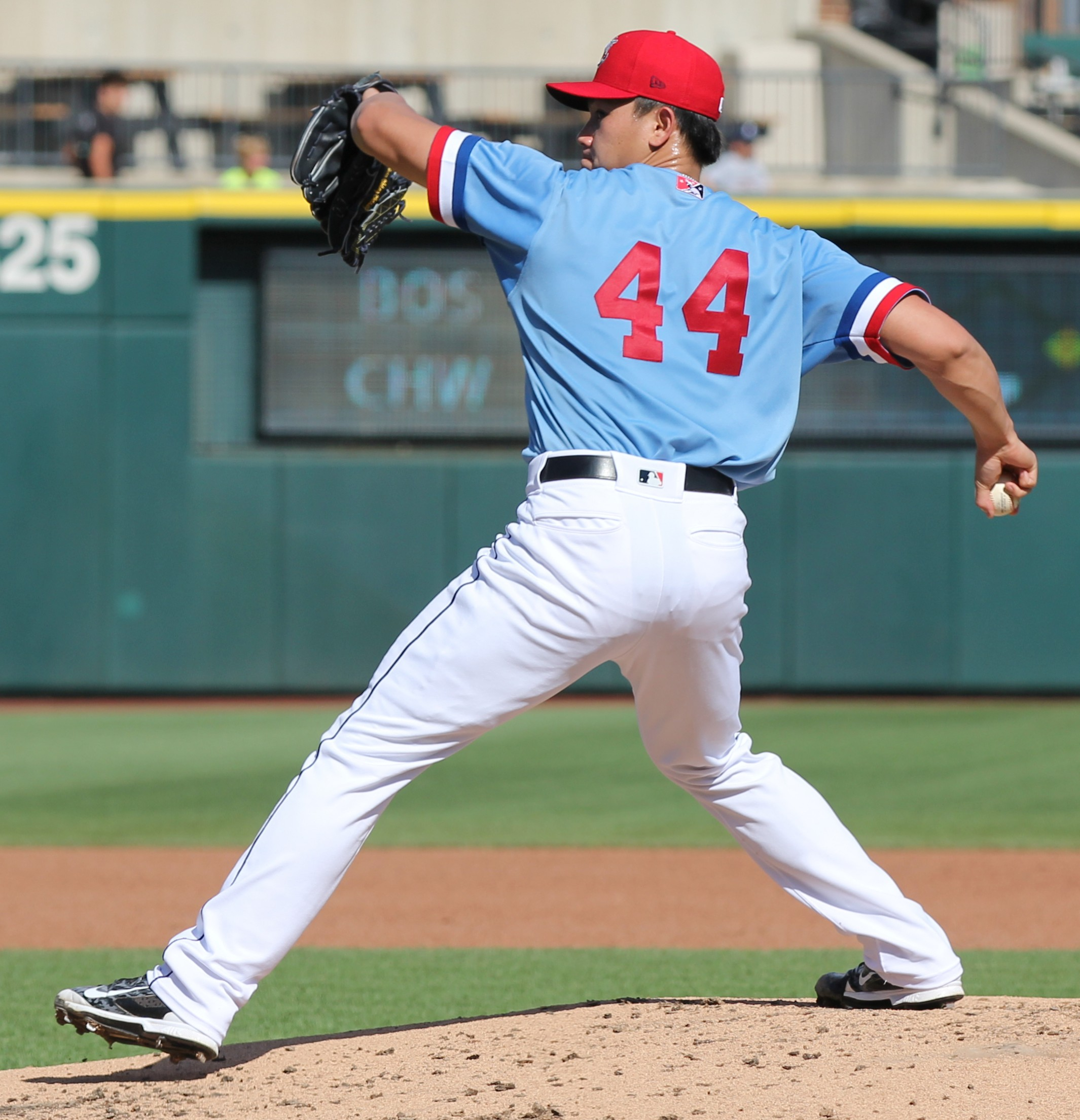 Shao-Ching Chiang of the Columbus Clippers during a 2018 game at Huntington Park in Columbus, Ohio